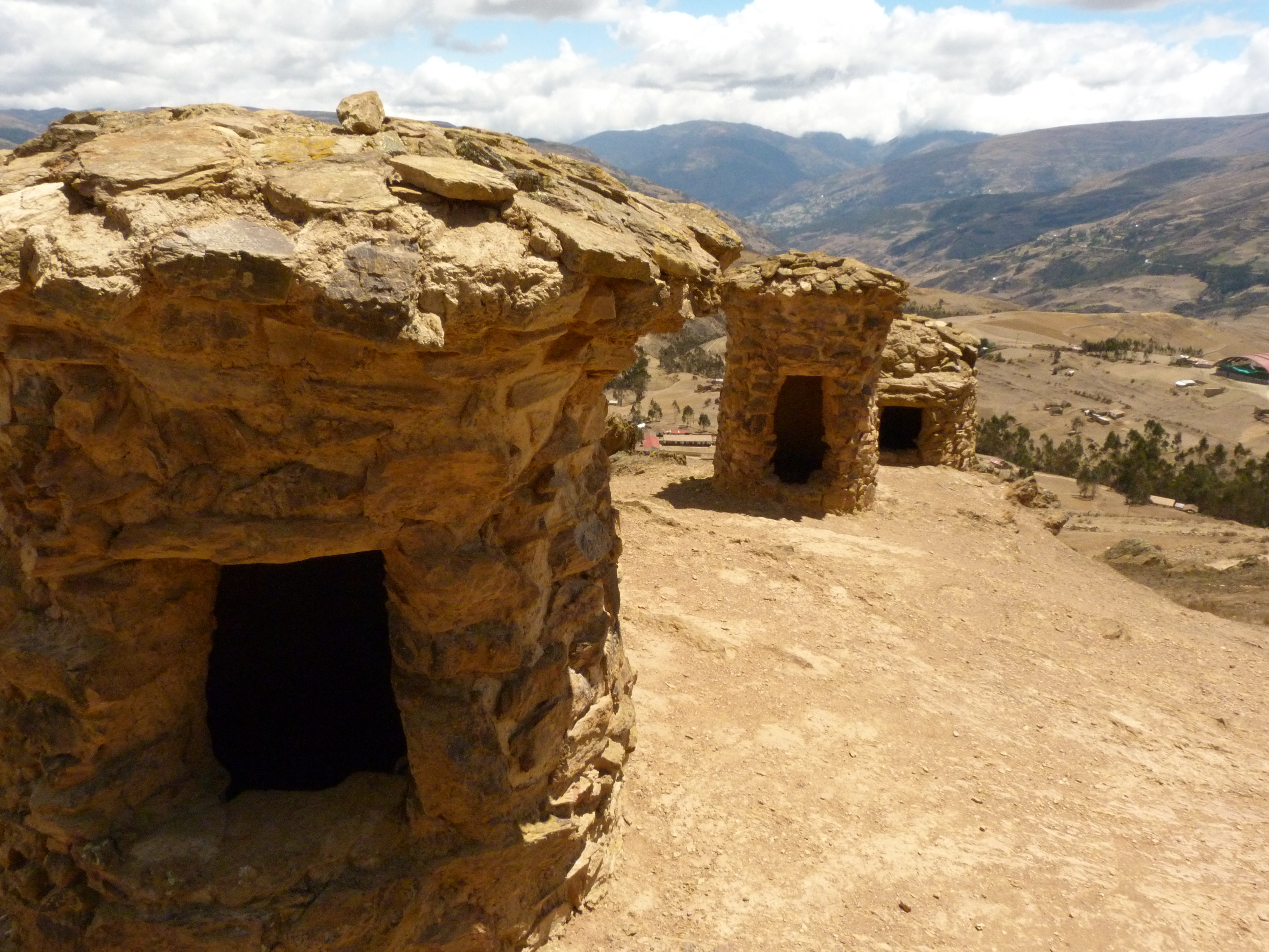 Funeral towers from pre-Inca, Aymara-speaking Lupaca culture.